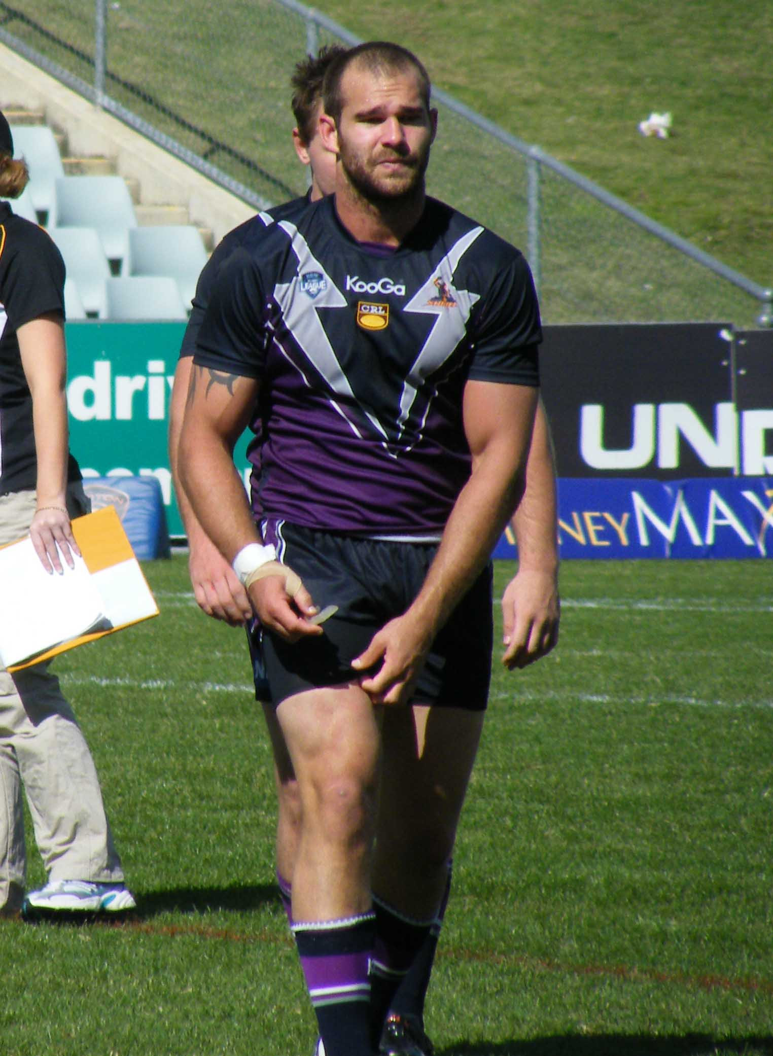 Scott Anderson of the Central Coast Storm